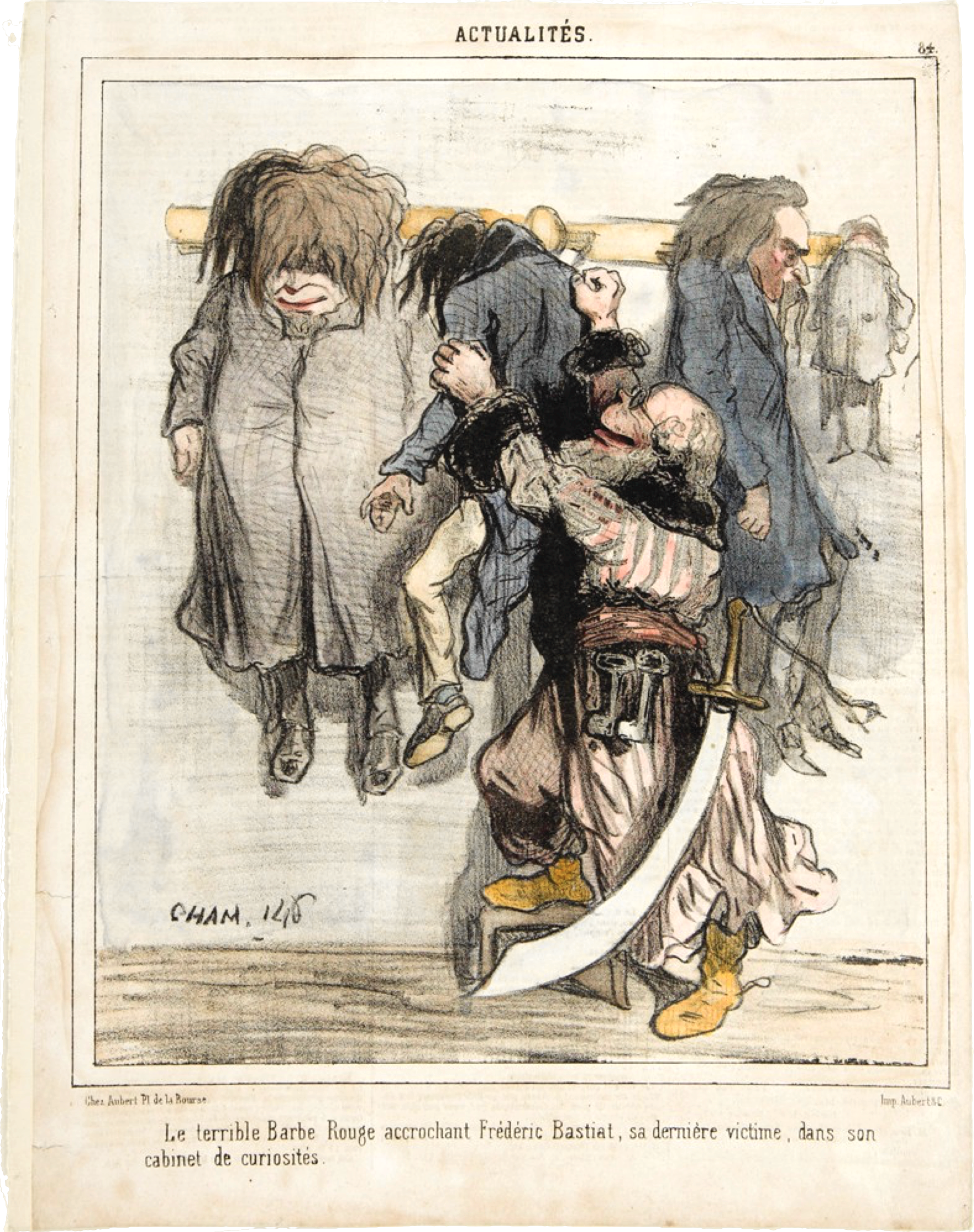 Caricature of French Socialist Pierre-Joseph Proudhon (1809–1865), hanging the French Liberal Frédéric Bastiat (1801–1850) in his cabinet of curiosities. Ref. Intérêt et principal : discussion entre M. Proudhon et M. Bastiat sur l'intérêt des capitaux, by P -J Proudhon; Frédéric Bastiat, Paris : Garnier Frères, 1850.